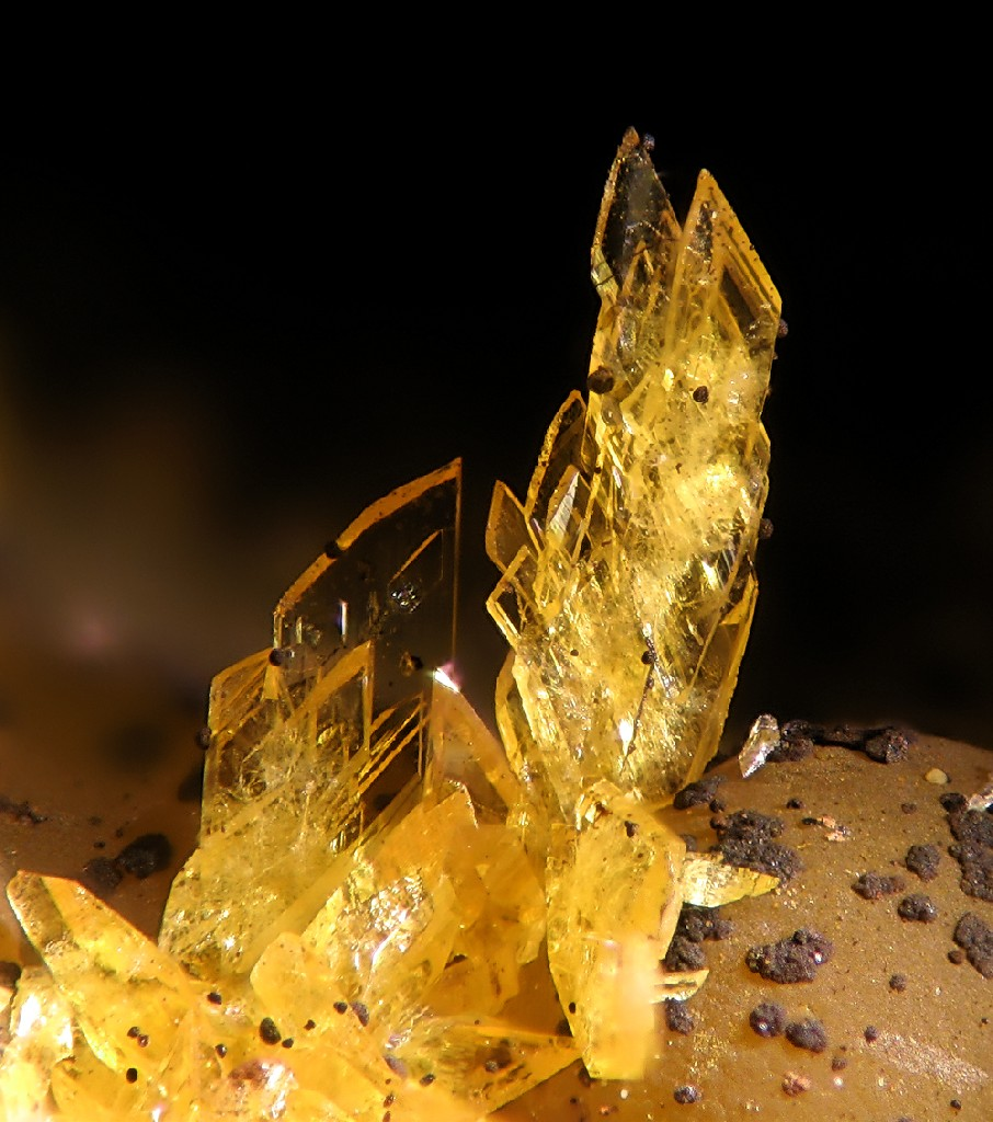 Stewartite Locality: Hagendorf South Pegmatite (Cornelia Mine; Hagendorf South Open Cut), Hagendorf, Waidhaus, Vohenstrauß, Oberpfälzer Wald, Upper Palatinate, Bavaria, Germany (Locality at ) Picture width 1,5 mm. Collection and photo Christian Rewitzer